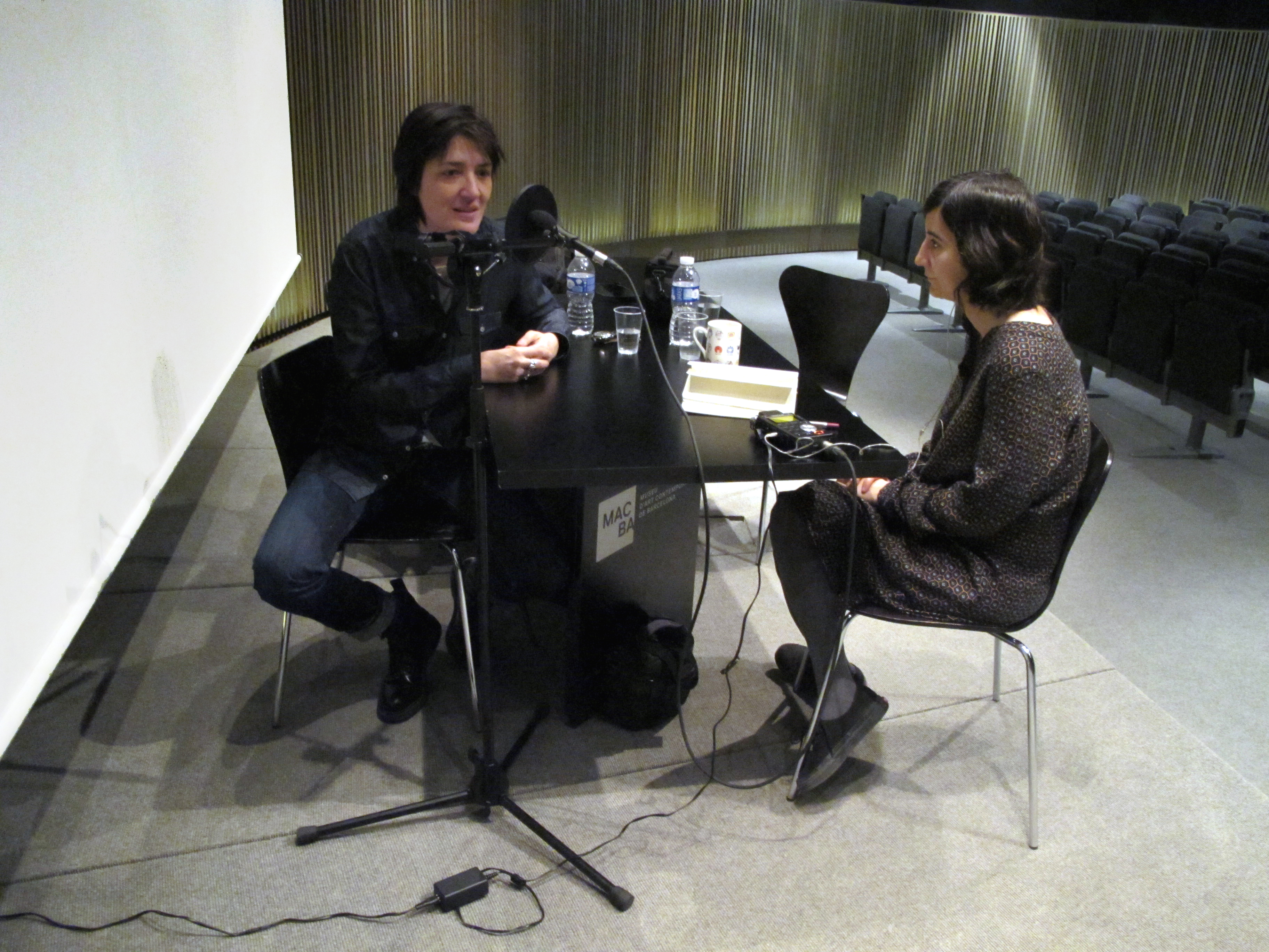 rwm.macba.cat/ca/especials/encrisi2/capsula Foto: Clio Flego / MACBA, 2013